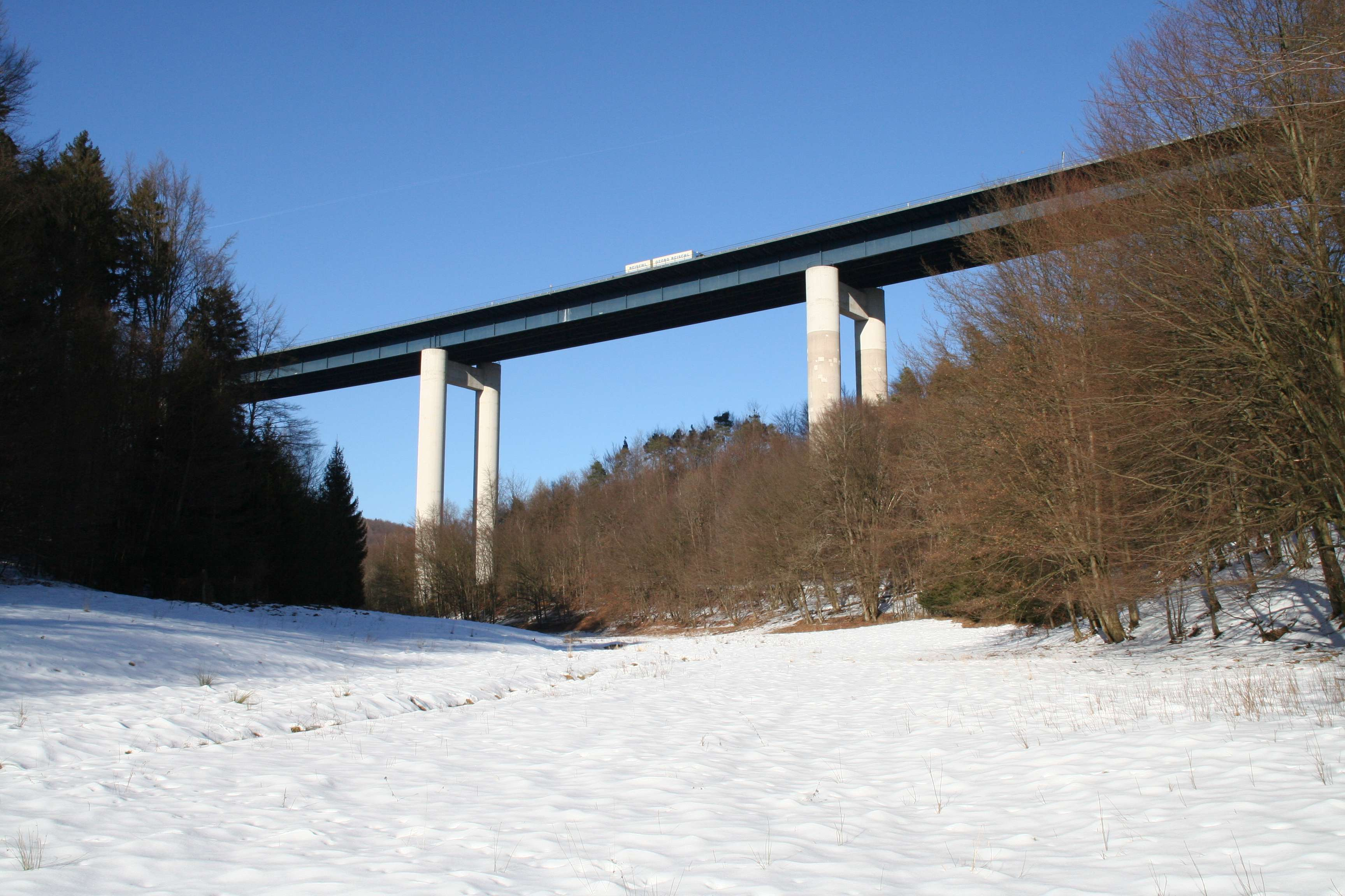 Haseltalbridge Spessart